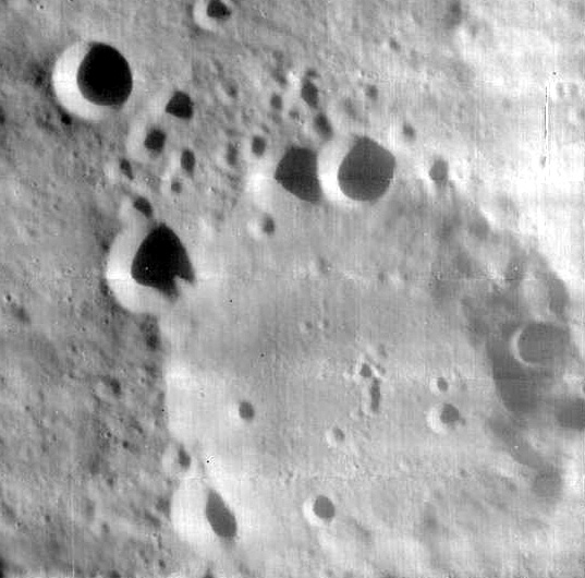 Gill (lunar crater), on the moon. Note that the SELENE (Kaguya) spacecraft crashed near this crater.